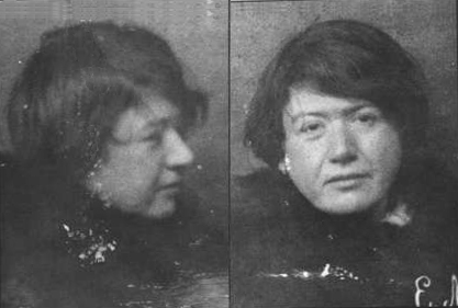 Evgenia Ratner, (1886, Smolensk — 1931, Butyrka prison, Moscow) — member of Central Committee of Socialist Revolutionists Party, victim of CheKa repressions